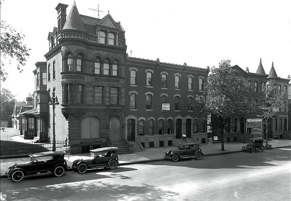 Broad Street and Susquehanna Avenue in Philadelphia